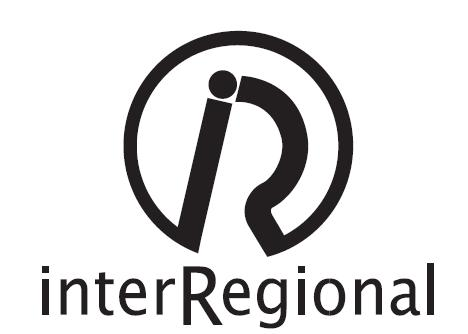 Logotipo Interrregional